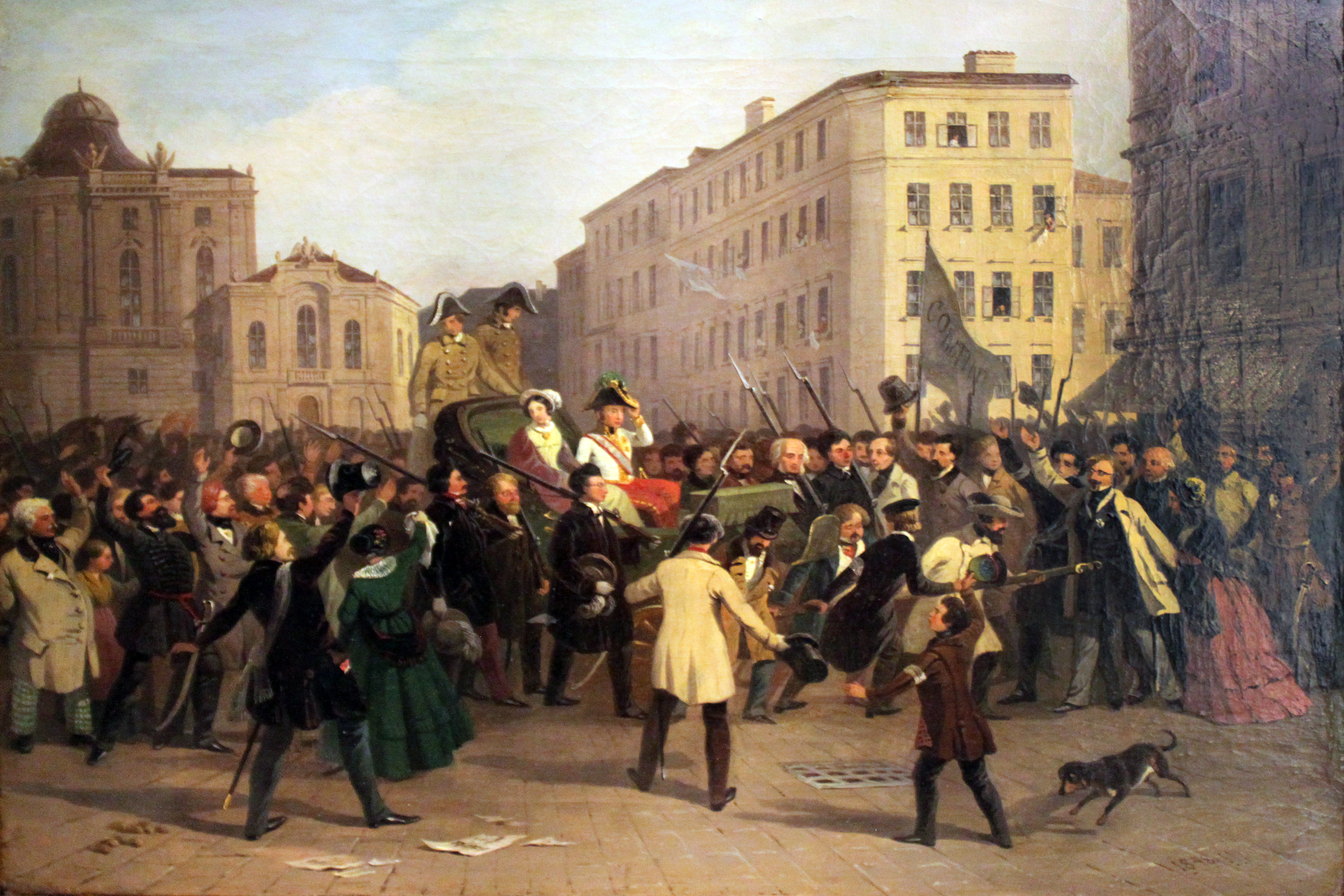 Emperor Ferdinand's drive, 15th March 1848